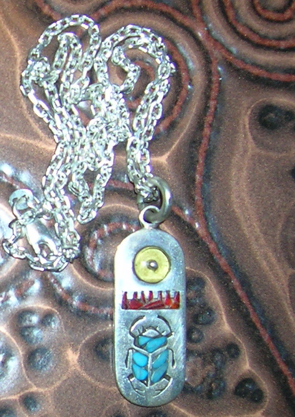 Piece of jewellery in silver with the hieroglyphs Men (rubin stone) Kheper (turquoise stone) Ra (amber mineral). The three hieroglyphs are the symbol of the Section of the Initiated in the Rosicrucian Order A.M.O.R.C. Photo June 28, 2007 with a Nikon Coolpix 5600 5,1 Megapixel camera.